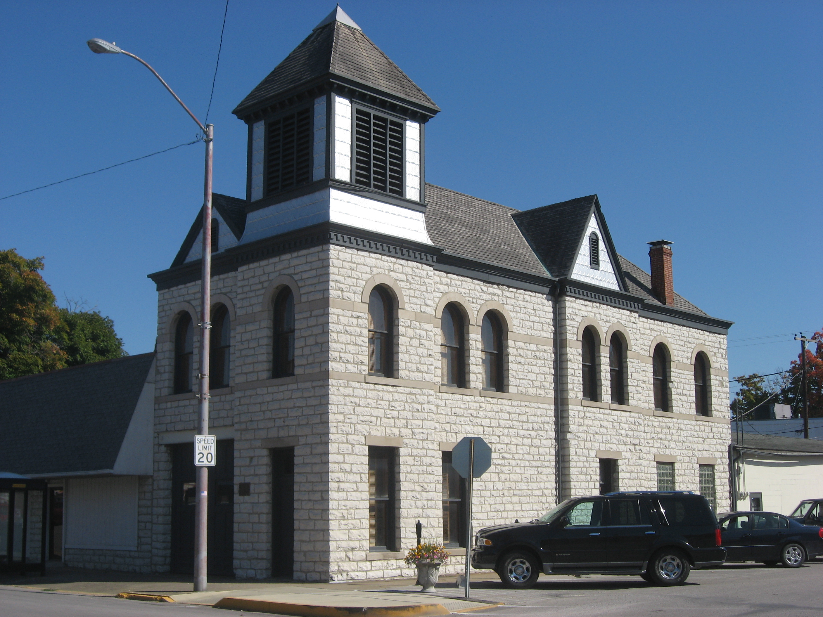 Front of the Spencer Town Hall and Fire Station, located at 84 S. Washington Street in Spencer, Indiana, United States. Built in 1897 and since converted into a law office, it is listed on the National Register of Historic Places.